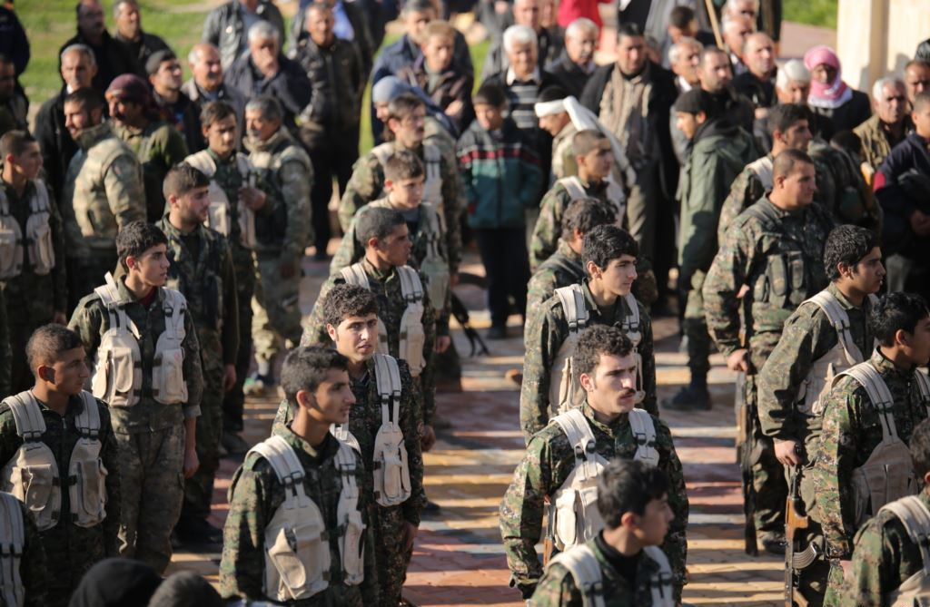 YPG fighters